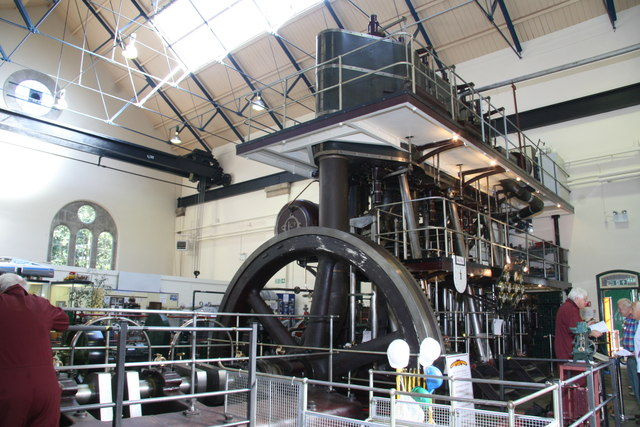 Museum of Power, Langford - steam engine